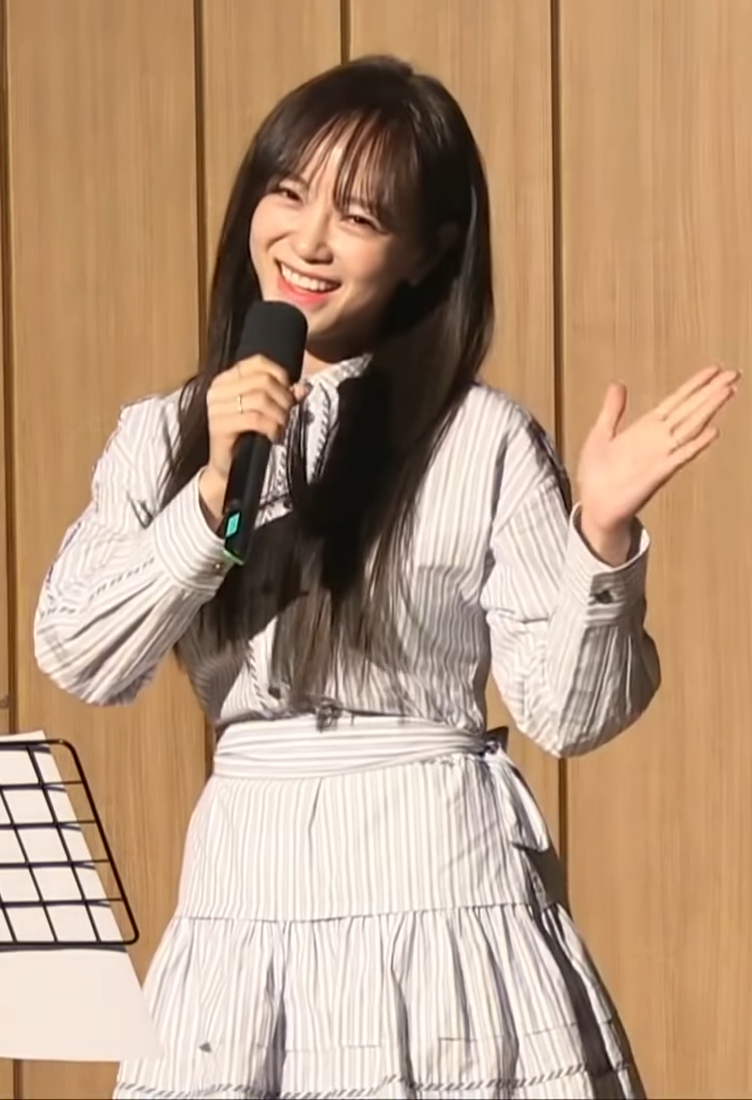 Sejeong performing "Plant" on SBS Radio on March 19, 2020.